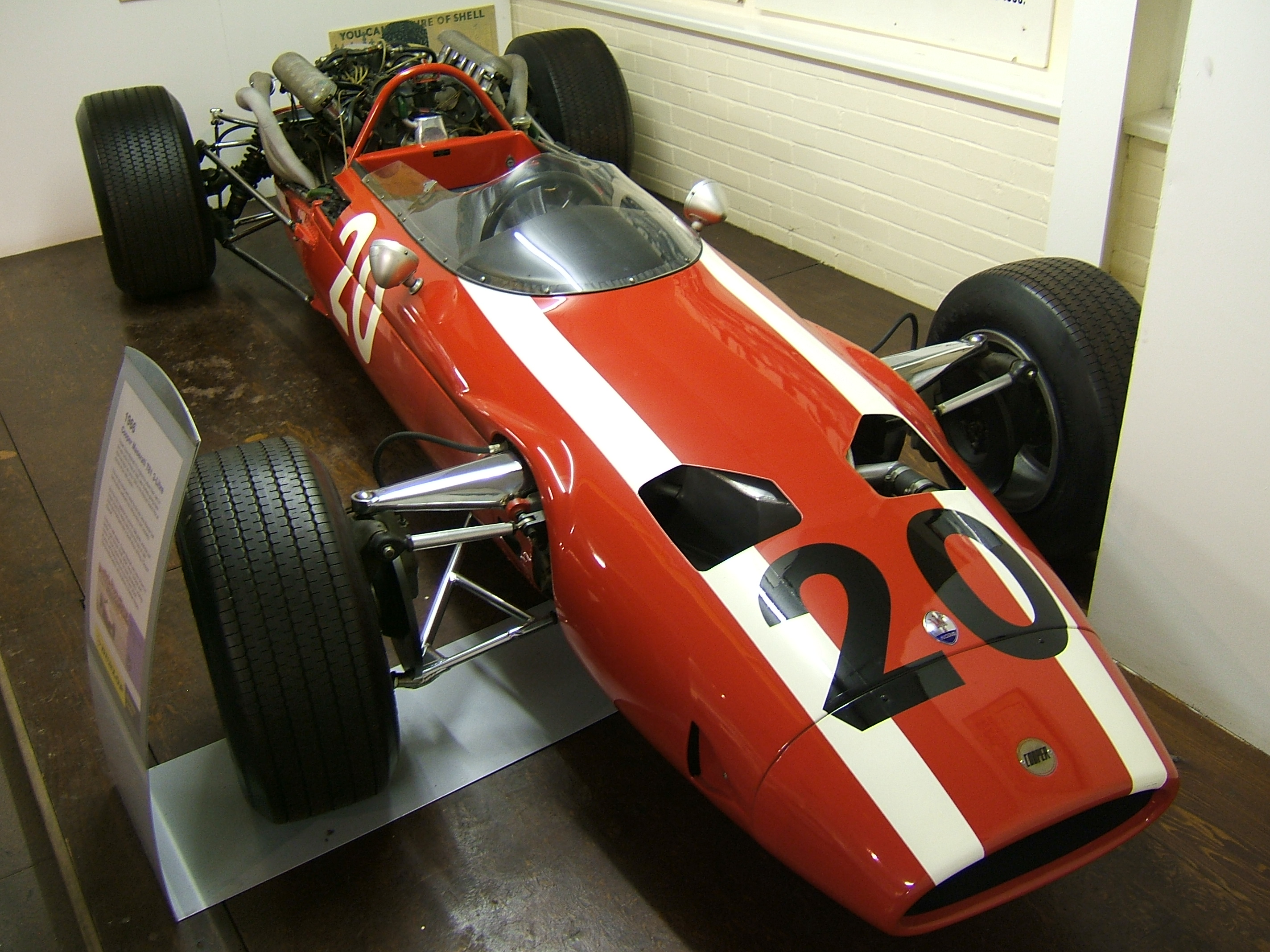 The Cooper T81-Maserati Formula One car of Jo Bonnier's Anglo Suisse Racing team. At the Donington Collection museum, Leicestershire, UK.